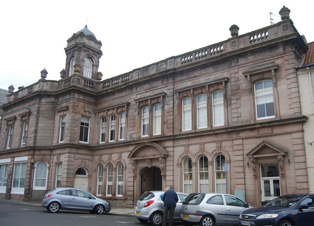 Former Corn Exchange